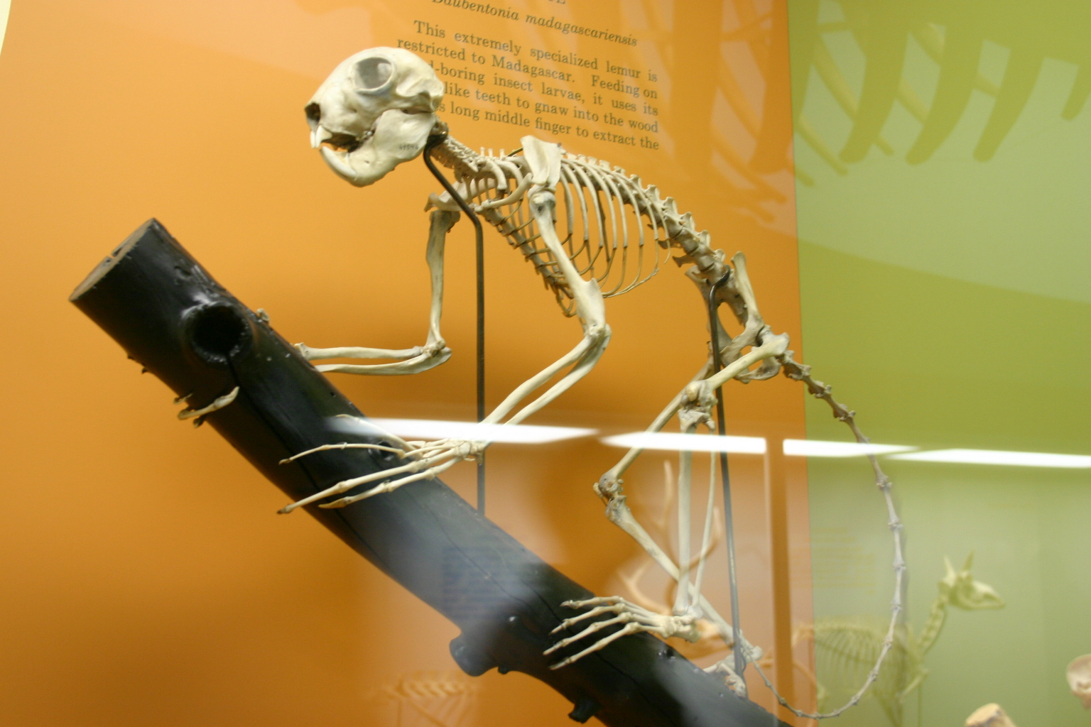 An Aye-Aye (Daubentonia madagascariensis) at the Smithsonian National Museum of Natural History's Hall of Bones